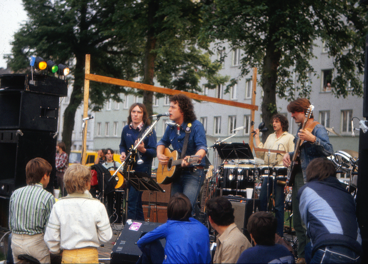 A concert photo of the German rock band BAP (from left: Klaus "Major" Heuser, Wolfgang Niedecken, Manfred "Schmal" Boecker, Wolfgang "Gröön" Klever), at the first Klenkes-Pressefest, Kennedypark, Aachen, Germany, in June 1980.